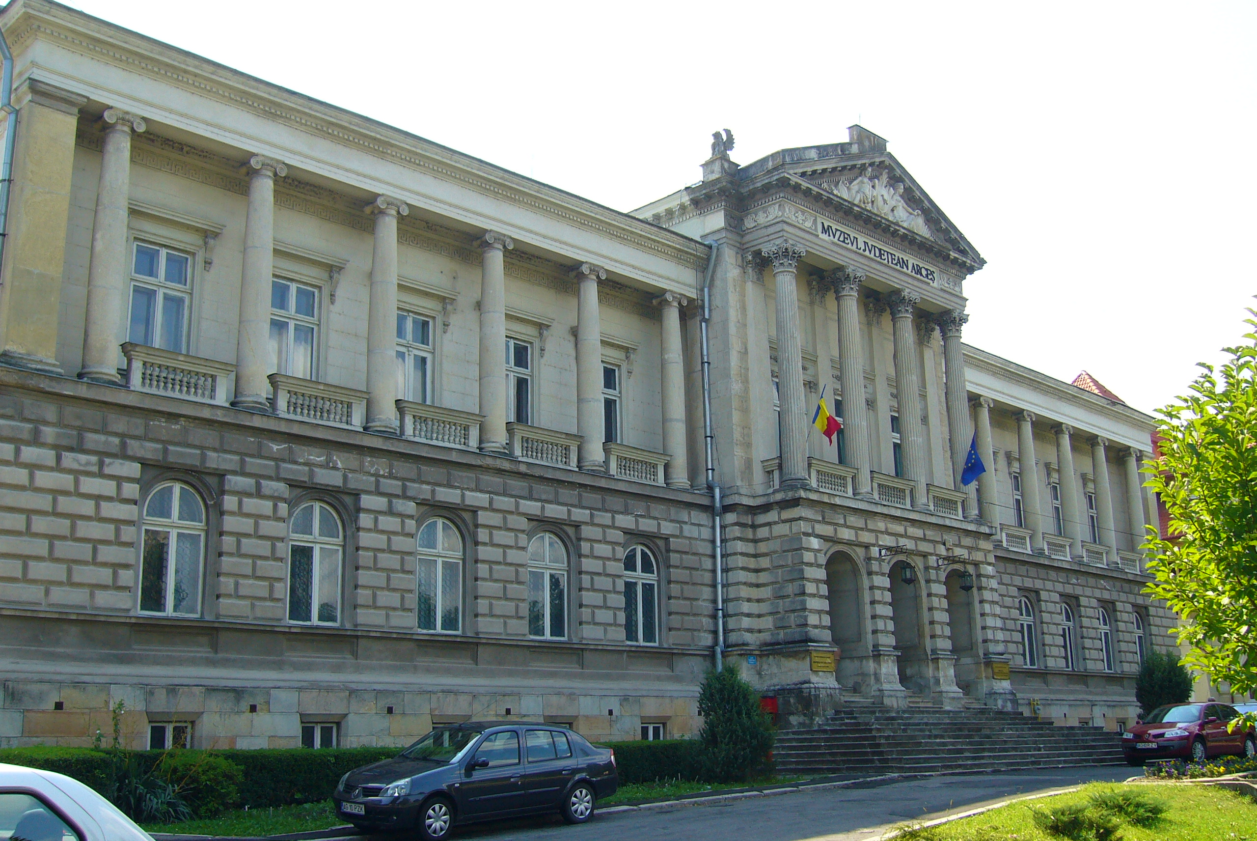 Arges District Museum. 01